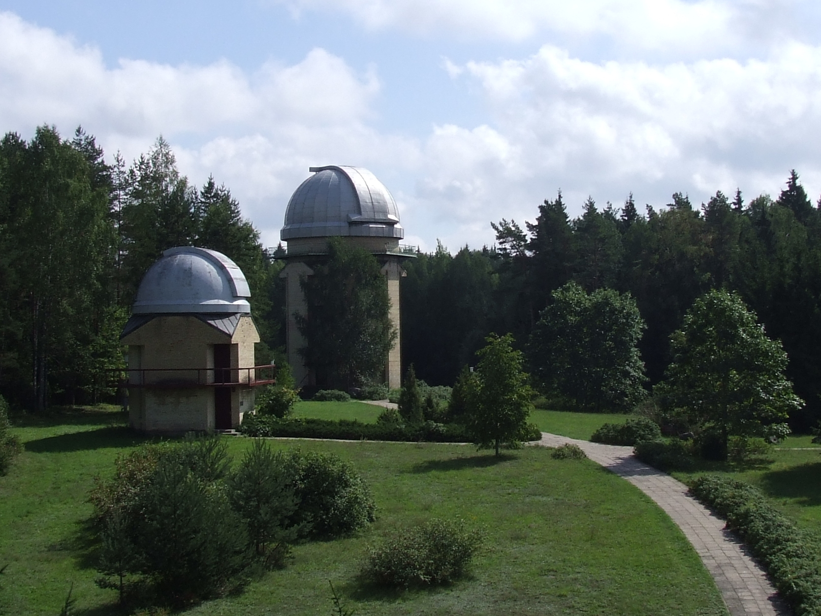 Two Domes of the Molėtai Astronomical Observatory